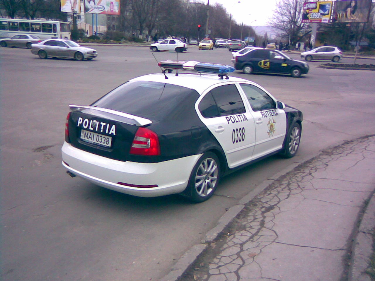 Skoda Octavia RS police car, Moldova, 2008